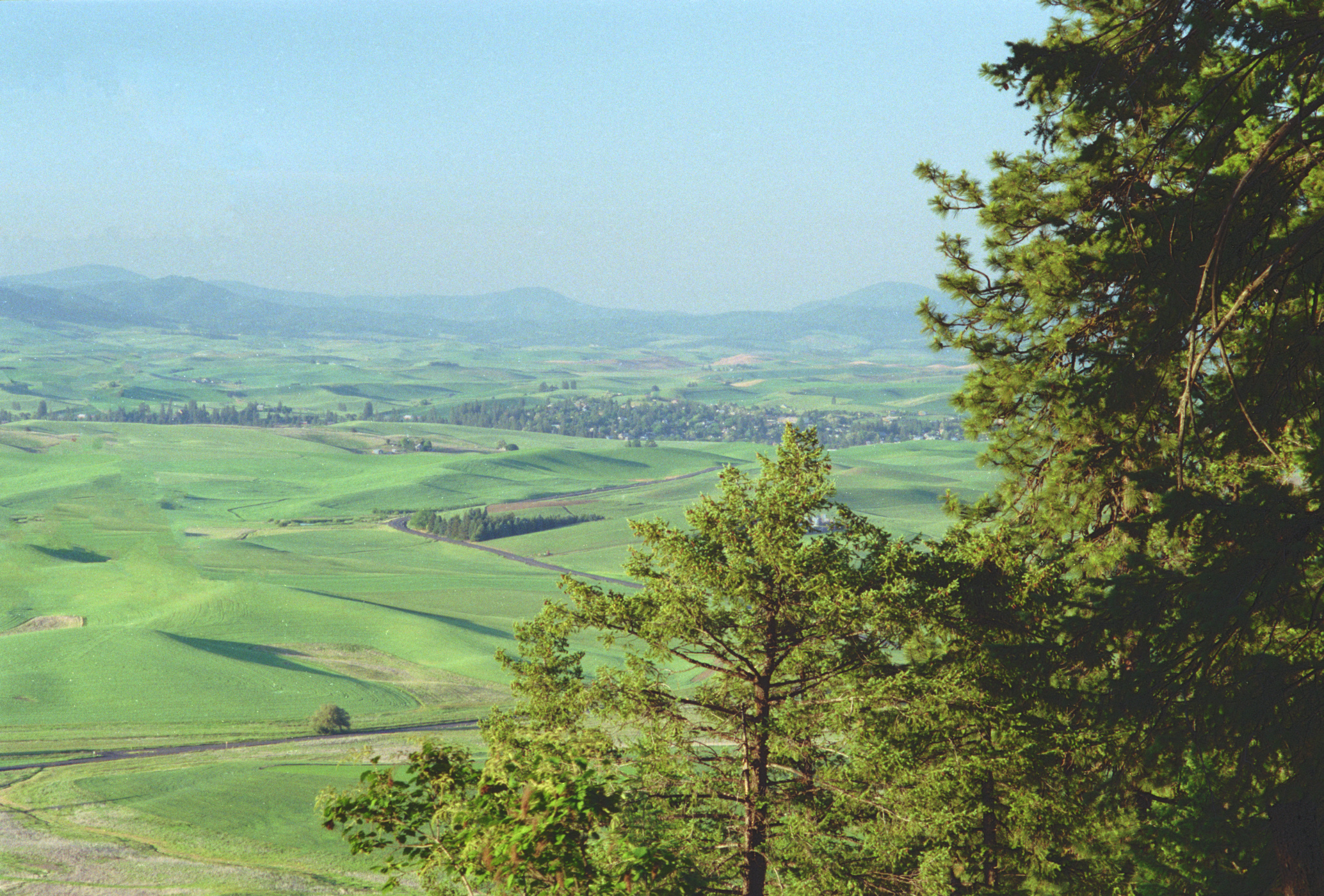 Palouse, WA from Kamiak Butte